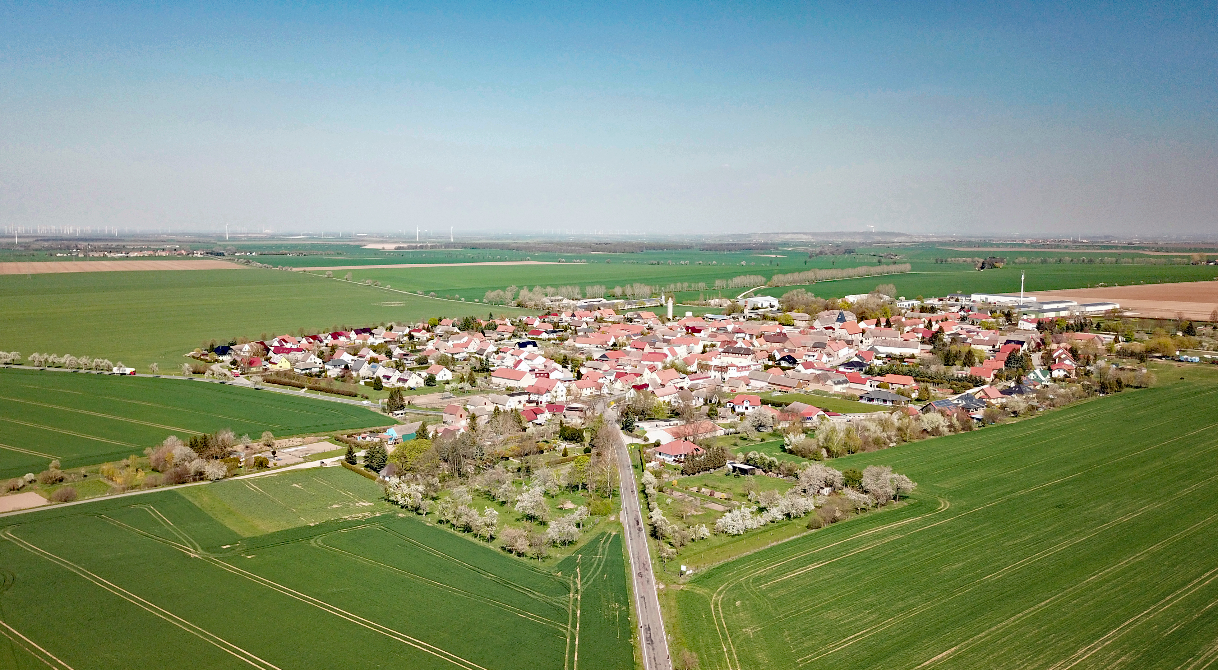 Gleina, Burgenlandkreis, Saxony-Anhalt, Germany